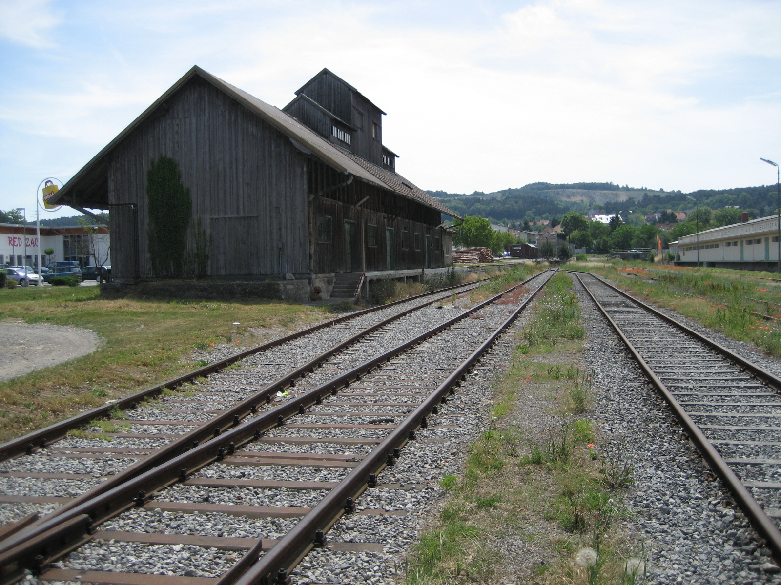 Mannersdorf train station in Lower Austria